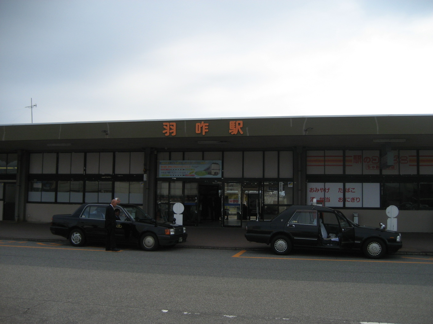 West Japan Railway Company Nanao Line Hakui Station